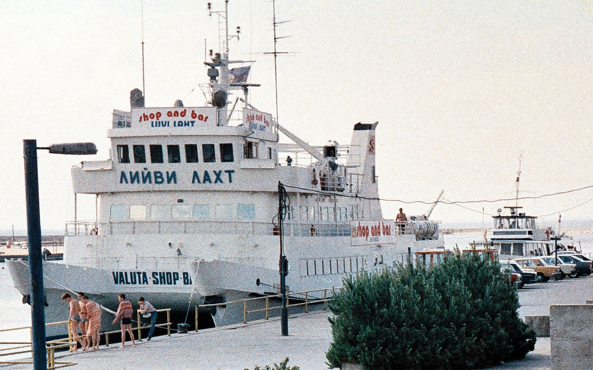 ЛИЙВИ ЛАХТ as valuta shop and bar 'Liivi Laht' and Koplirand at quay on the Pirita River Tallinn Summer 1991